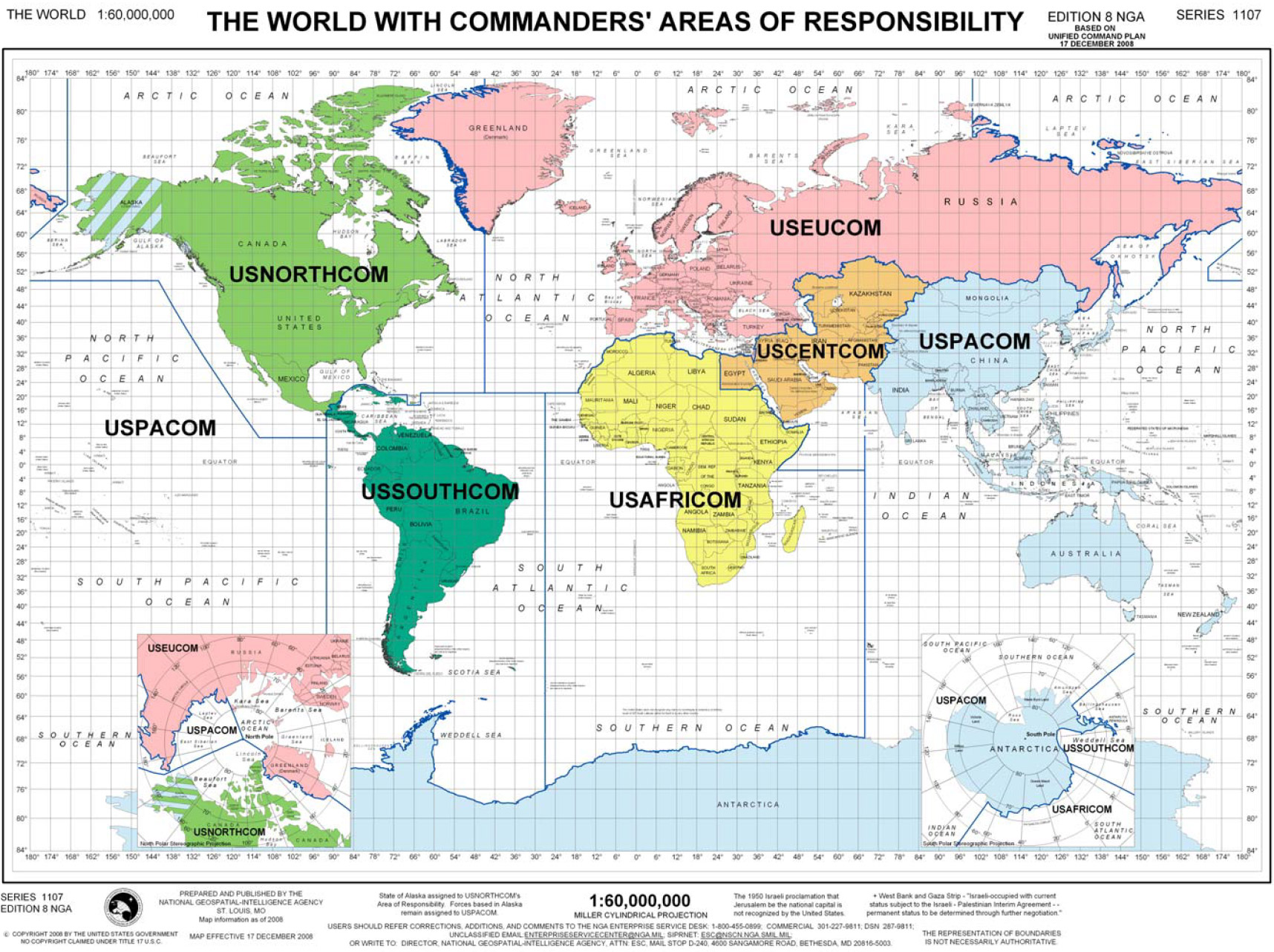 UNIFIED COMMAND PLAN MAP.